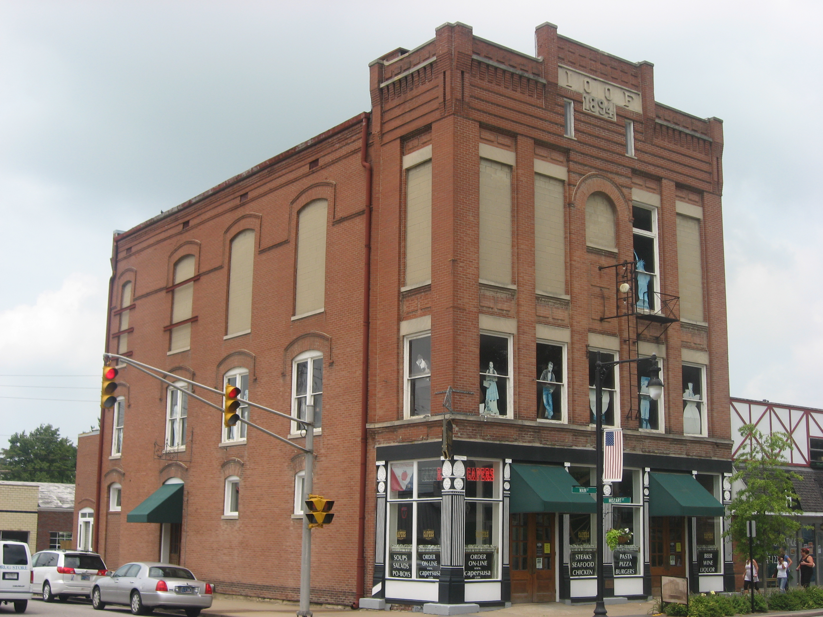 Front and southern side of the Tell City Oddfellows' Hall, located at 701 Main Street in Tell City, Indiana, United States. Built in 1894, it was listed on the National Register of Historic Places in 1992, but it was delisted after a 2013 fire.